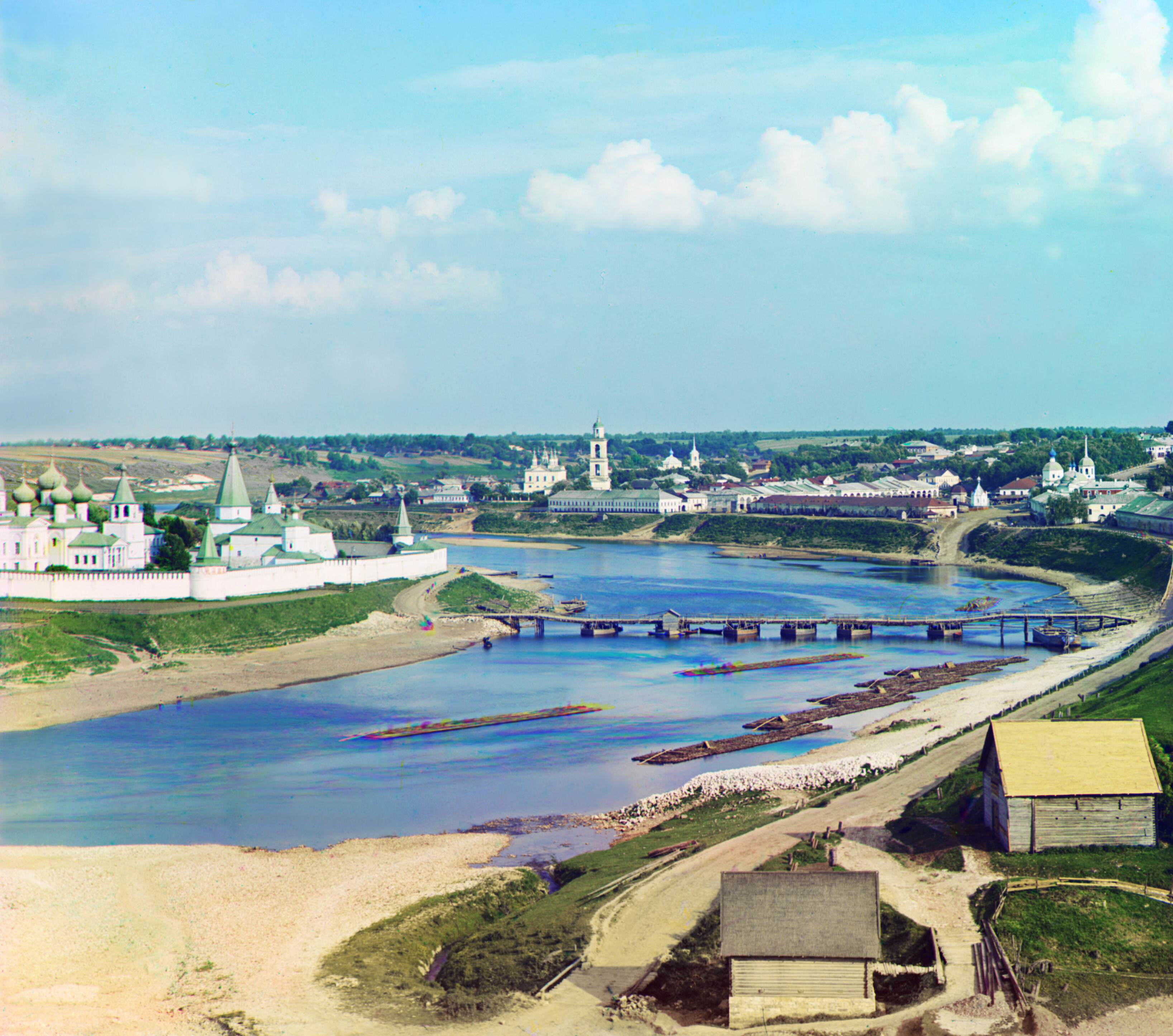 View of Staritsa, Russia in 1912.